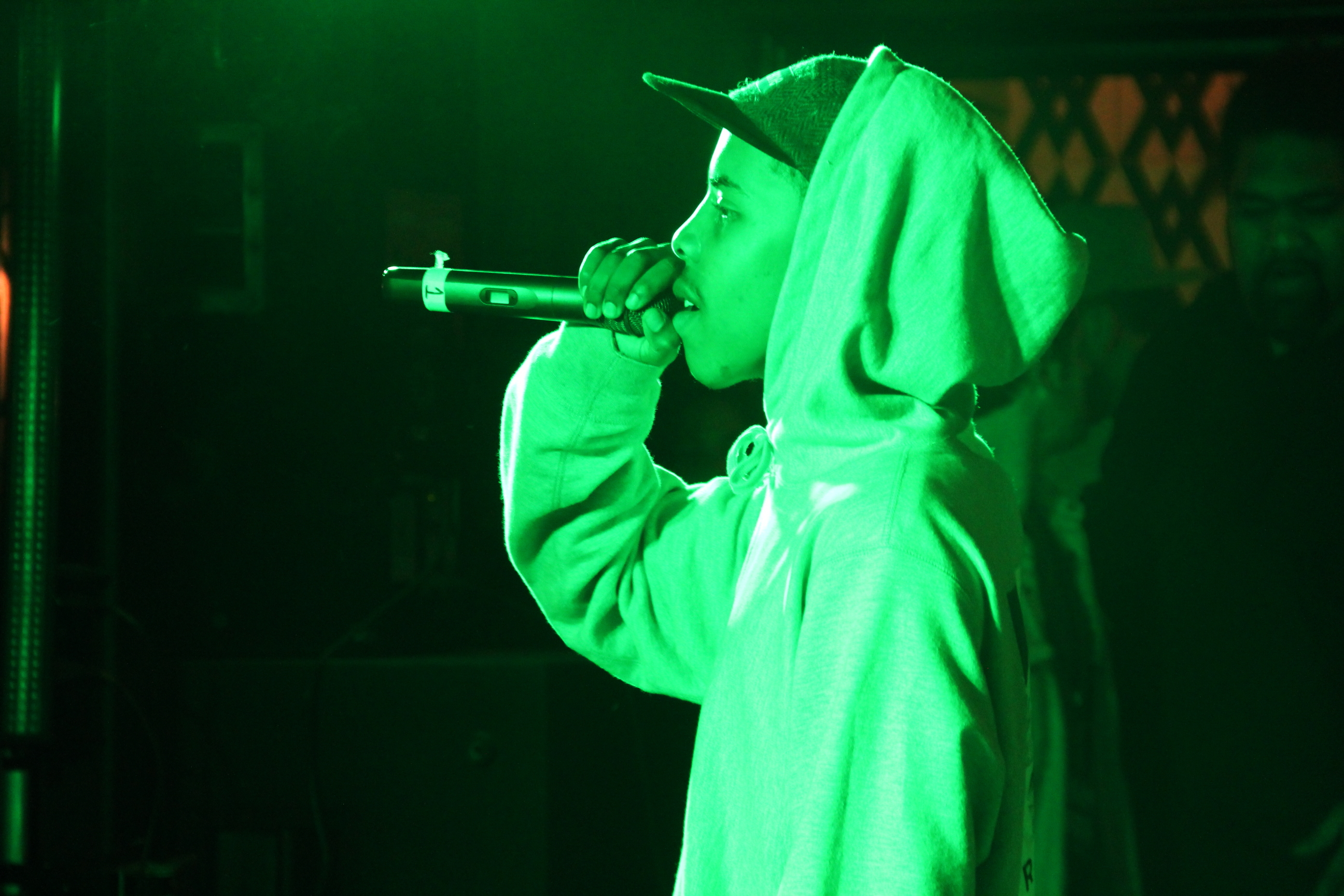 Earl Sweatshirt March 15, 2013